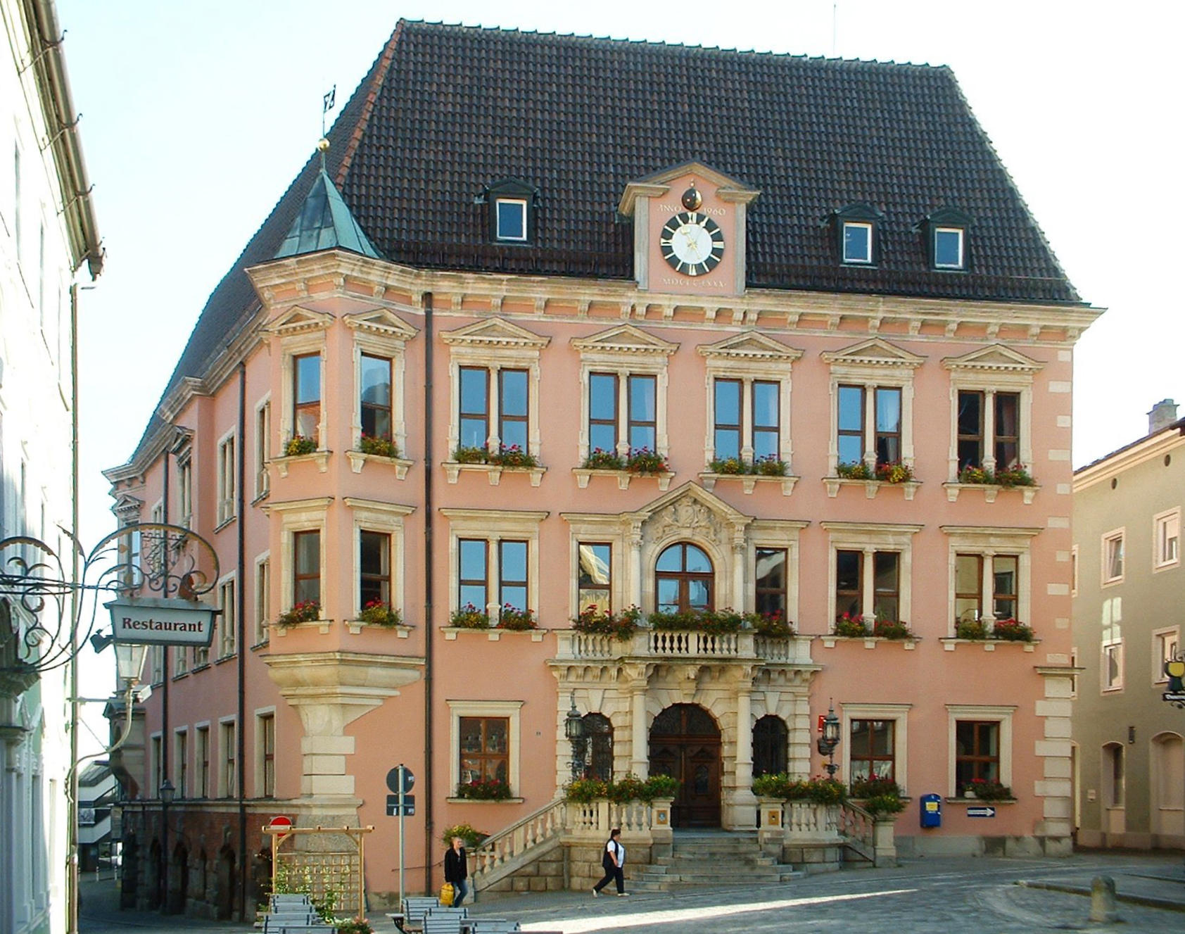 townhall of Kaufbeuren, Germany